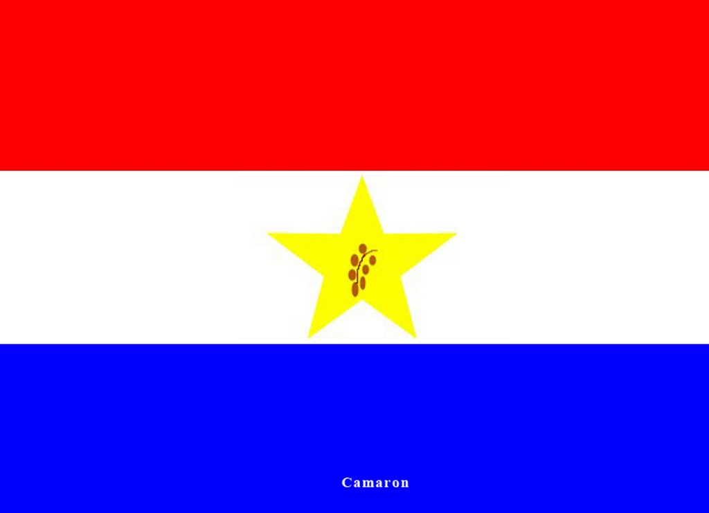 Bandeira do município